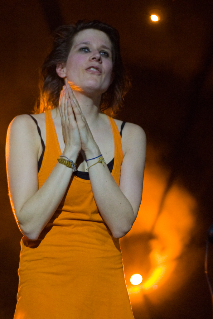 Camille live in Melbourne (Australia).